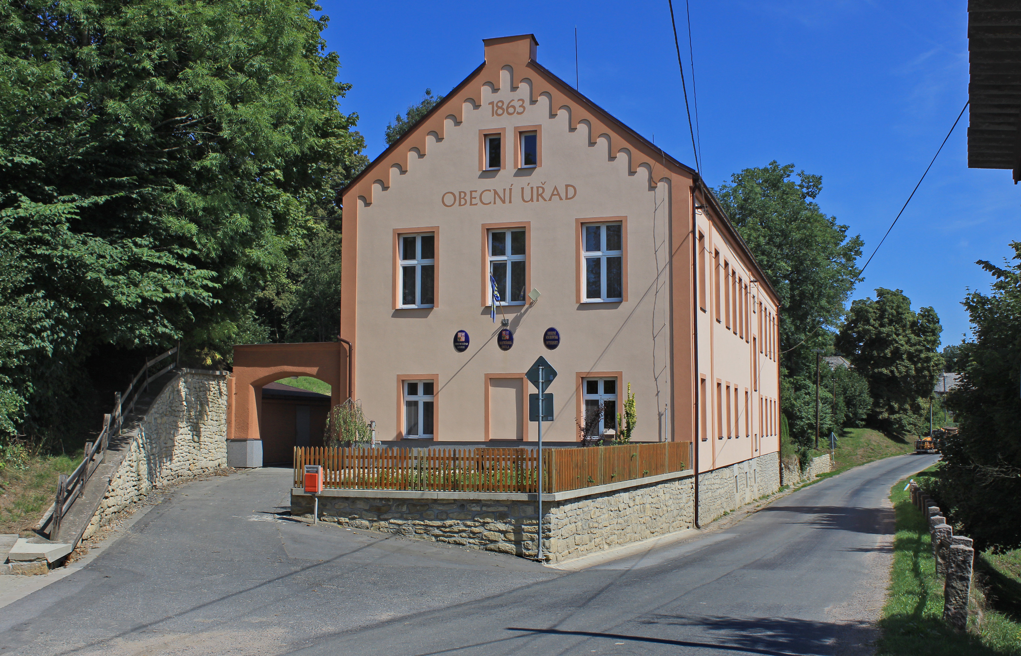 Munucipal office in Karle, Czech Republic.